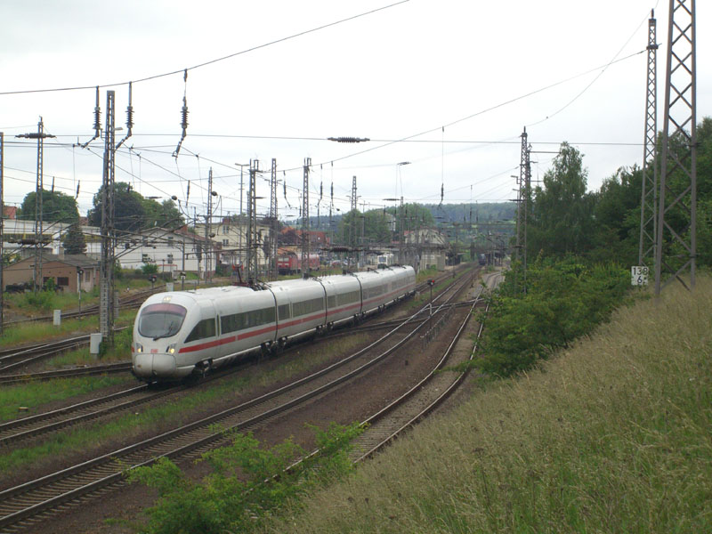 ICE 411 008 at Leinefelde